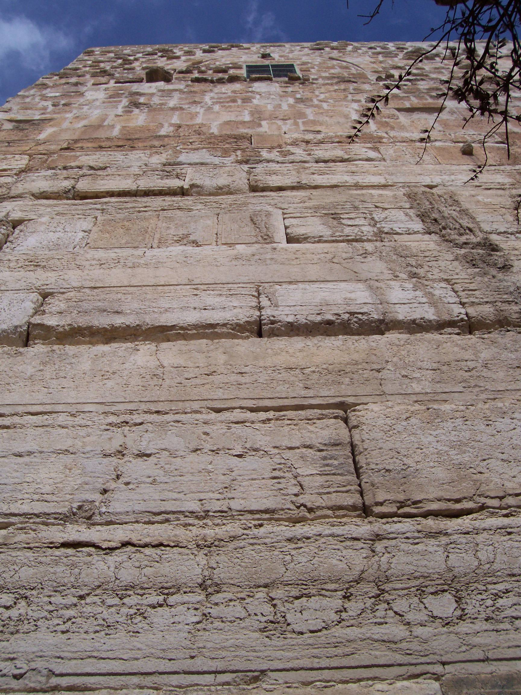 temple mount south wall from outside bottom